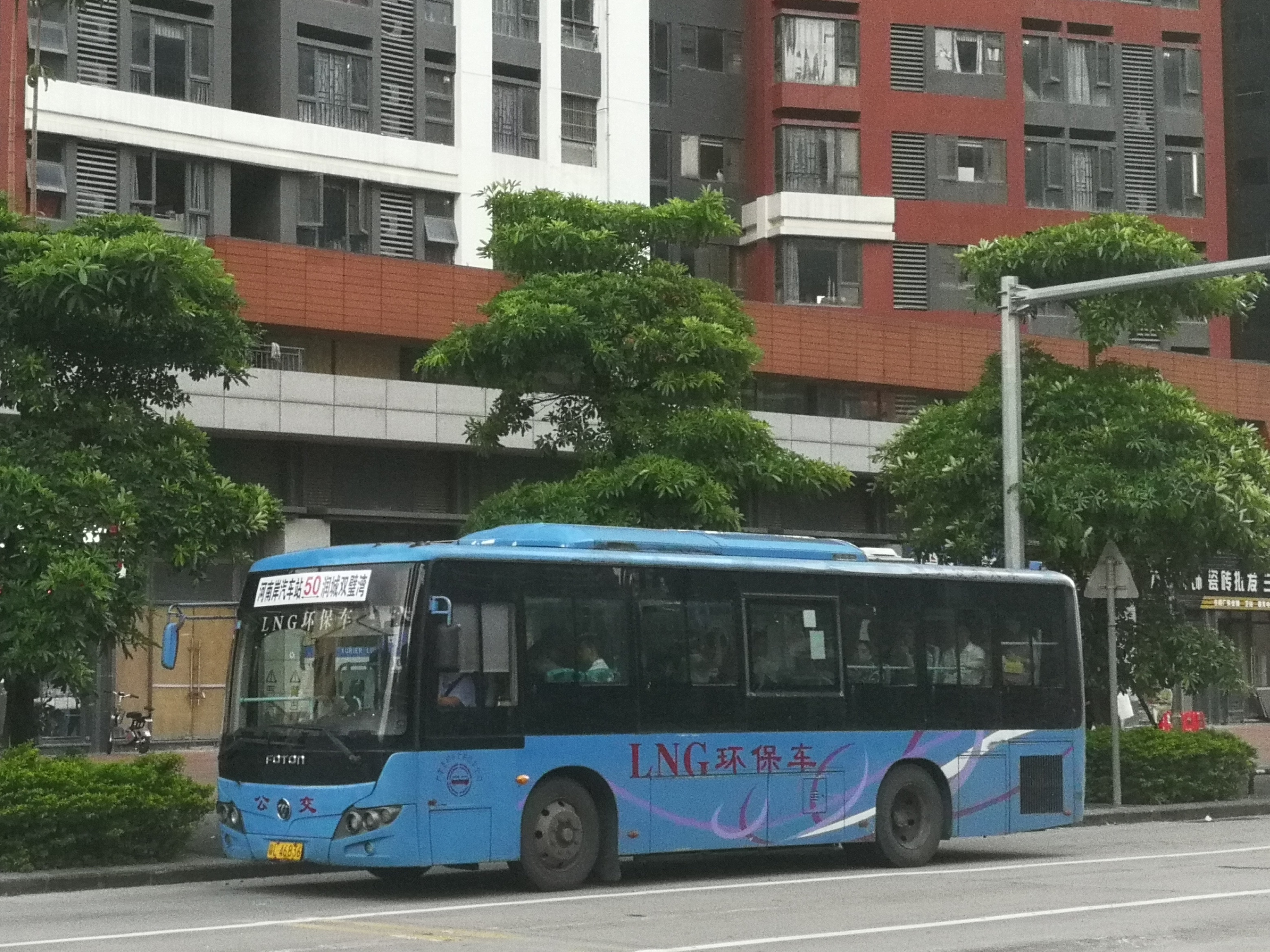 A Foton BJ6901C6MCB-2 bus which is powered by liquid natural gas and enlisting on HZCI Bus Co,ltd Route 50. The plate number of this bus is "粤L•46836" . The photo was taken at the bus stop of Wentouling.